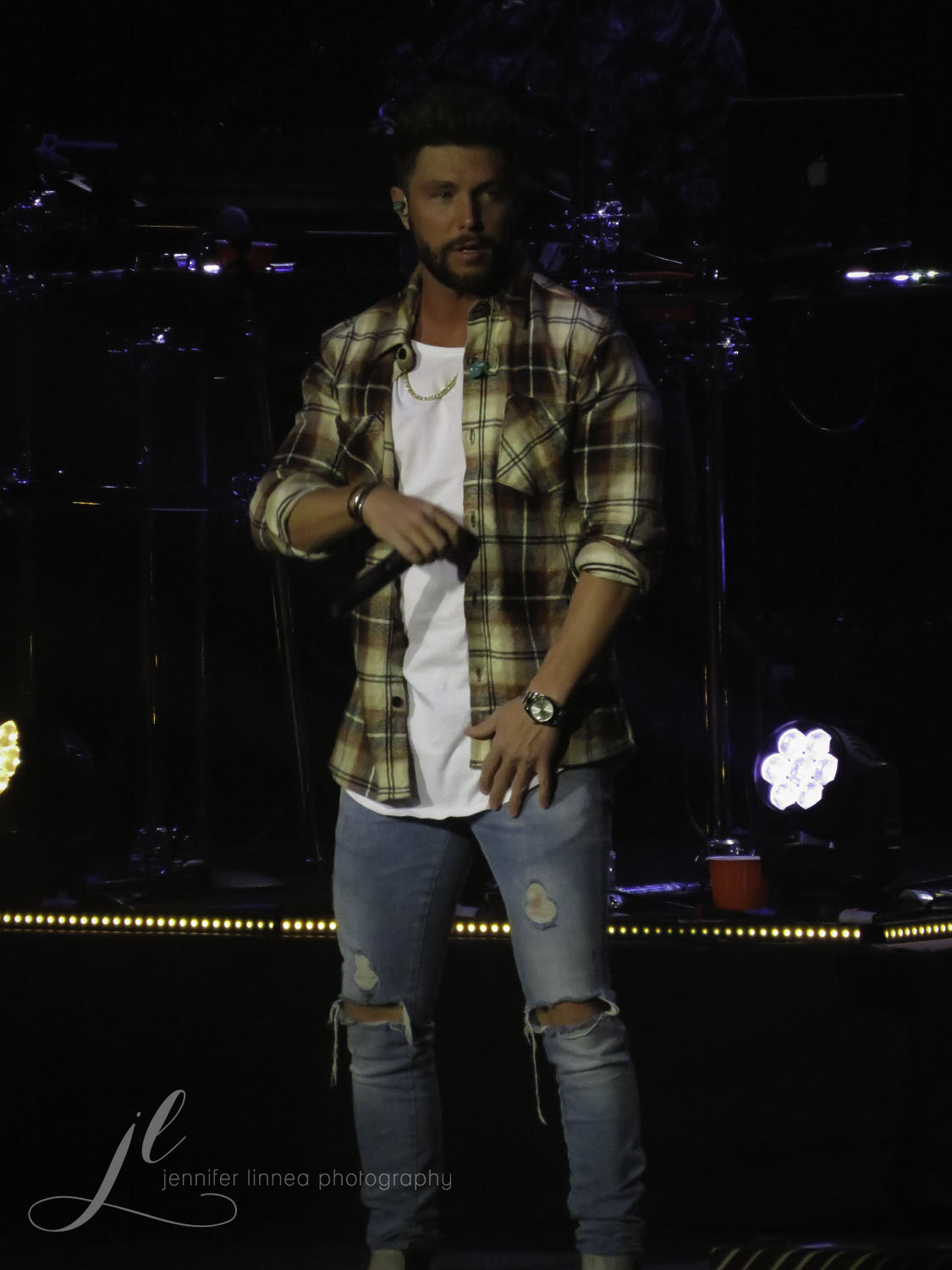 Chris Lane live at KYGO's Christmas Jam 2017